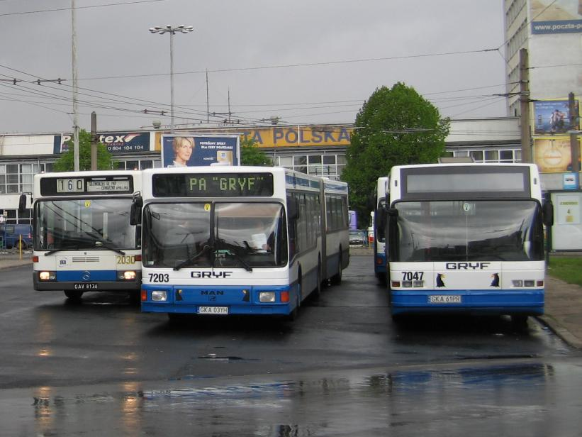 From left to right: Jelcz M122MB bus with Mercedes-Benz O405N2 chassis (#2030, reg. GAV 8136, built 1996, PKM Gdynia operator), MAN NG272 bus (#7203, reg. GKA 03YH, built 1992, Gryf Kartuzy operator) and Neoplan N4014NF (#7047, reg. GKA 61PR, built 1992, Rychert Somonino operator).